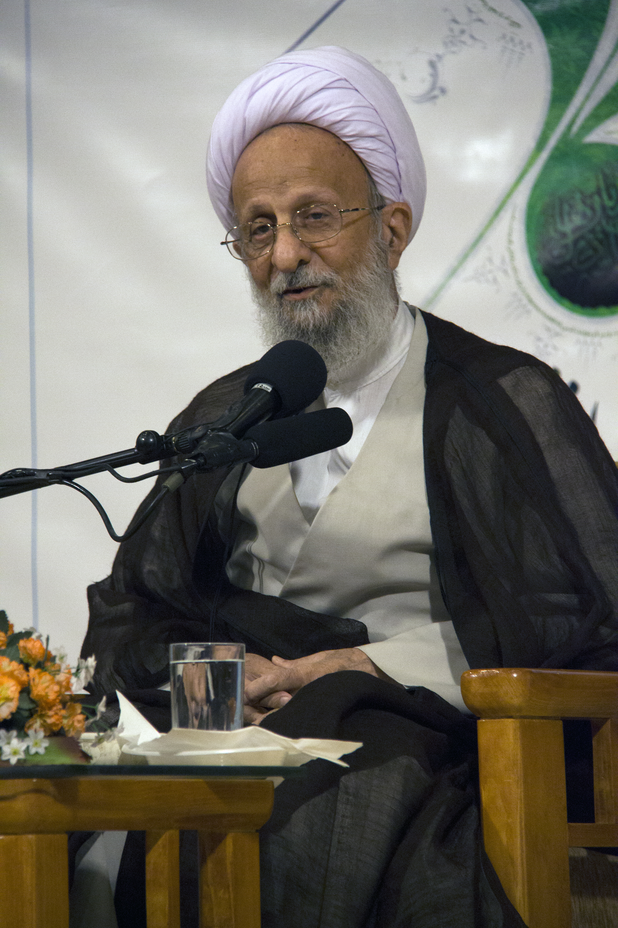 Taqī Miṣbāḥ commonly known as Muḥammad–Taqī Miṣbāḥ Yazdī is an Iranian Twelver Shi'i cleric and principlist political activist who unofficially leads Front of Islamic Revolution Stability. He was a member of the Assembly of Experts, the body responsible for choosing the Supreme Leader, where he heads a minority faction. He has been called 'the most conservative' and the most 'powerful' clerical oligarch in Iran's leading center of religious learning, the city of Qom.